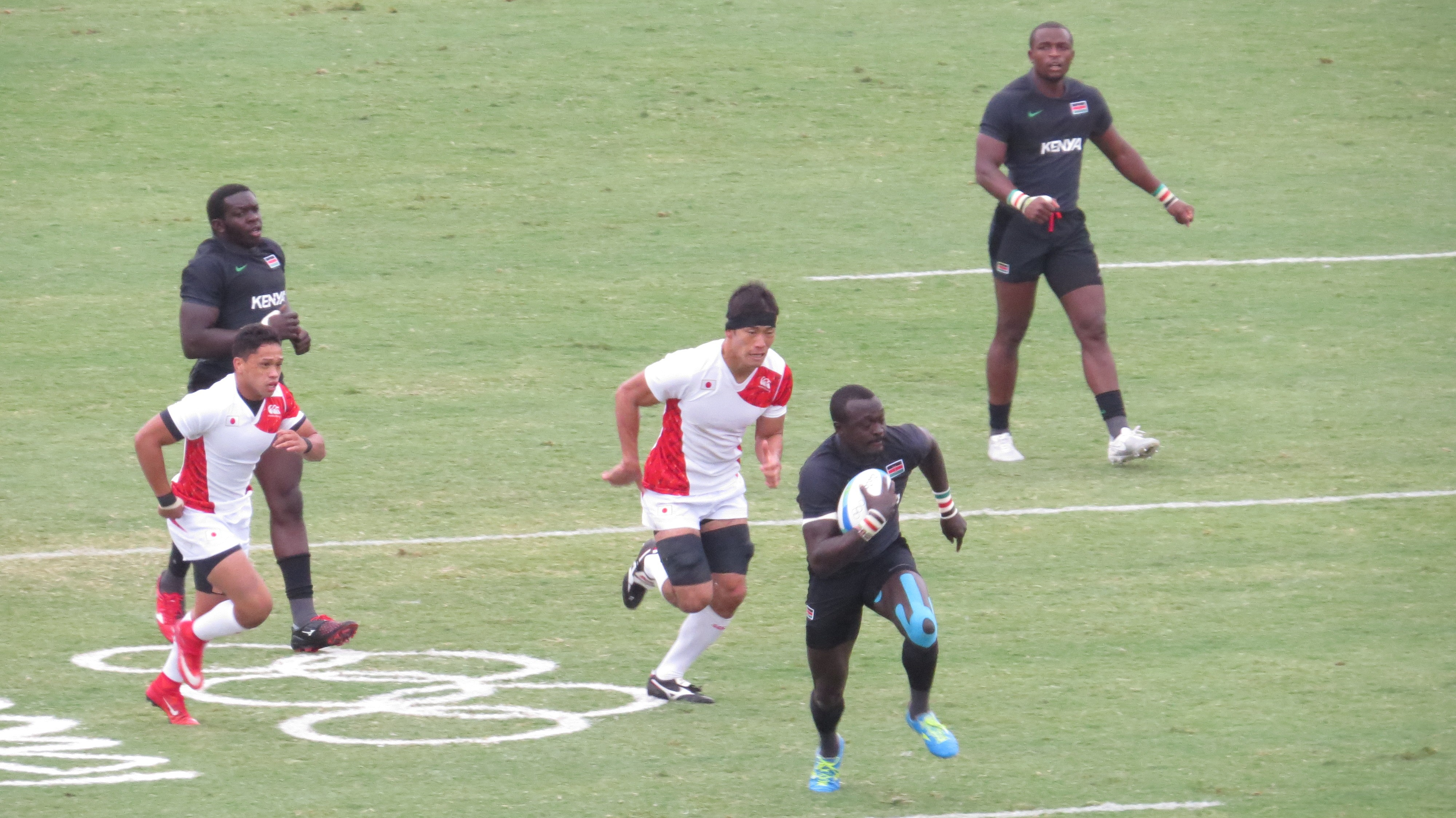 Rio 2016. Rugby 73